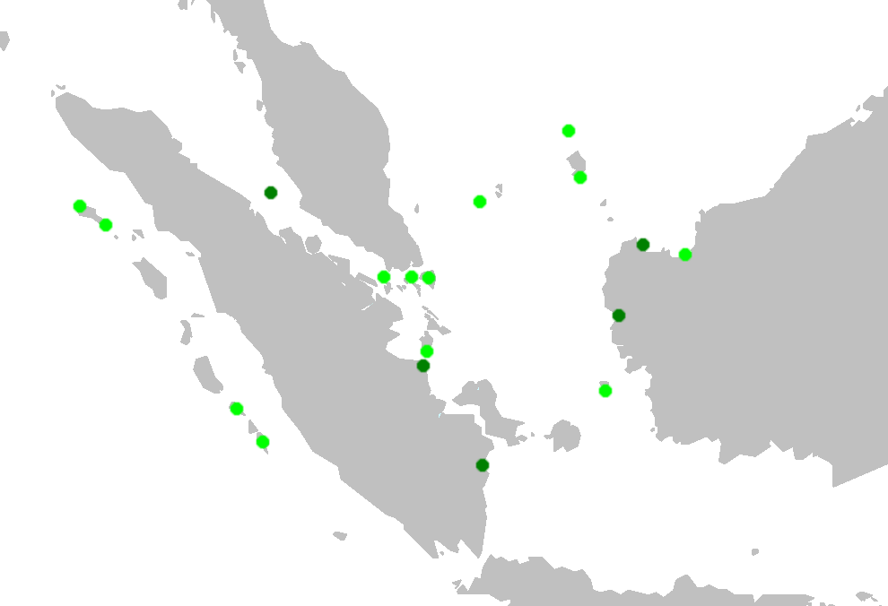 Distribution map of the Silvery Pigeon Columba argentina. Light green = certain records, dark green = unverified records. Current as of December 2001 (one unverified 2002 record, reported in 2006, may not be included).